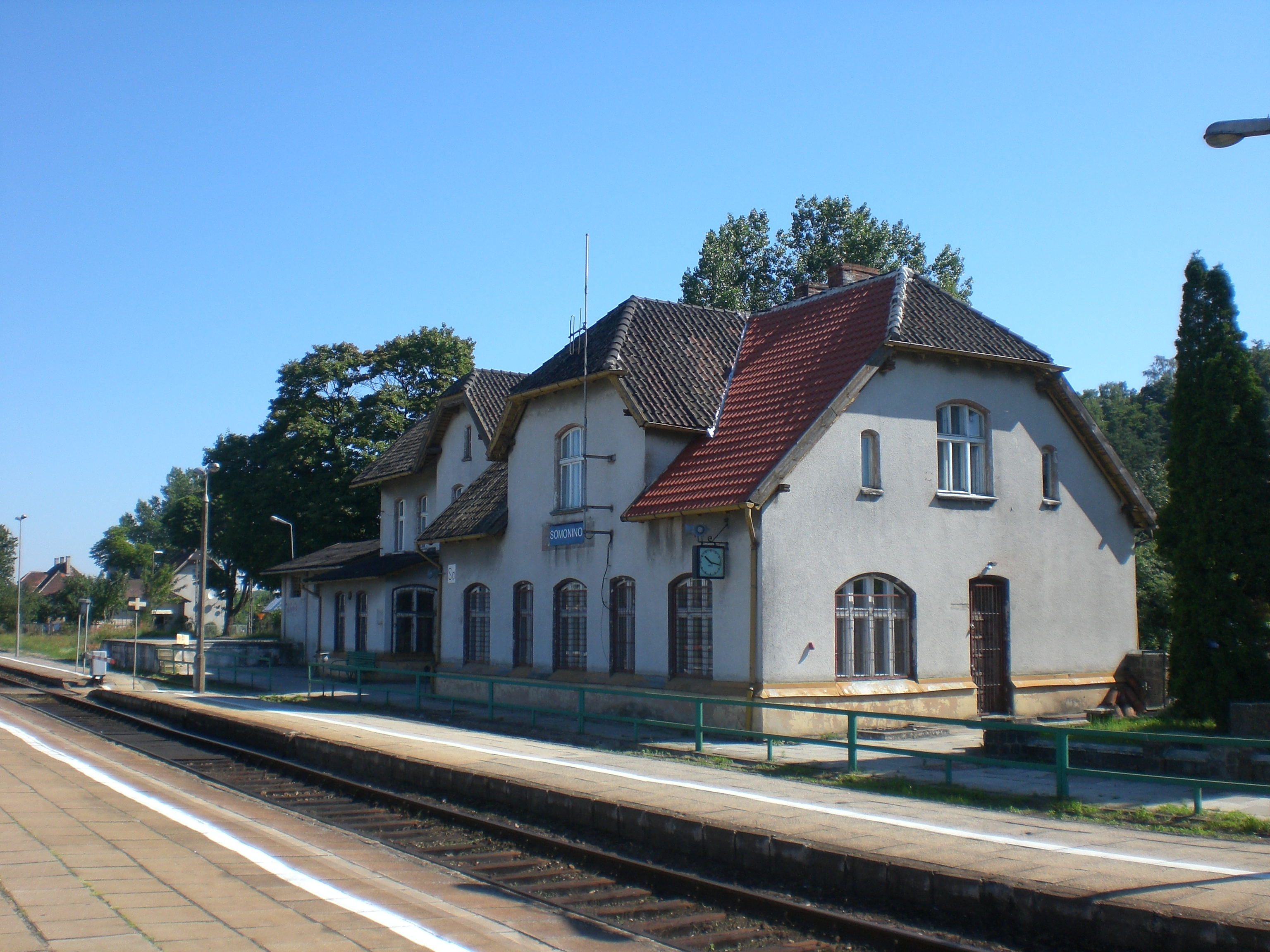 Train station in Somonino, Poland Unknown